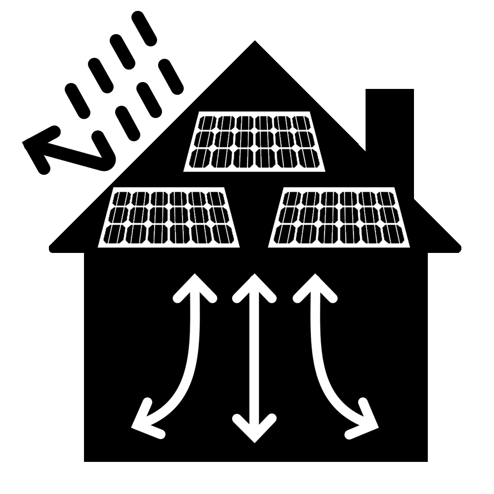 A zero-energy building is a building with zero net energy consumption, meaning the total amount of energy used by the building on an annual basis is roughly equal to the amount of renewable energy created on the site